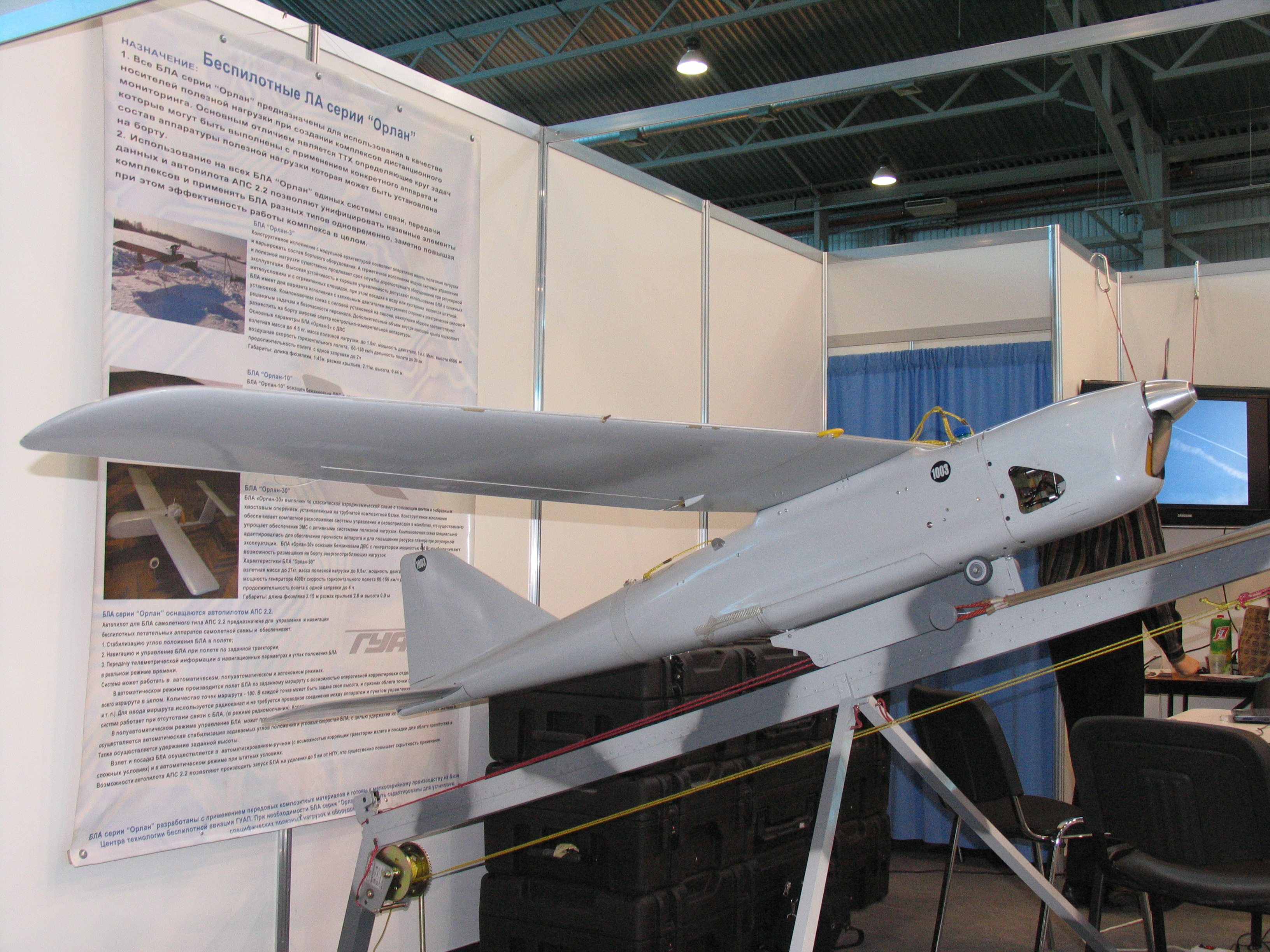 UAV Orlan-10 (No. 1003) exhibited at "InterAeroCom 2010", Saint Petersburg, Russia.